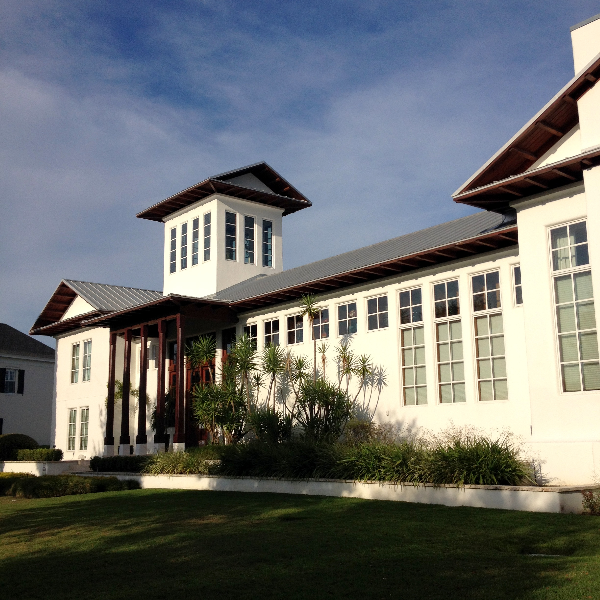 baldwin park home